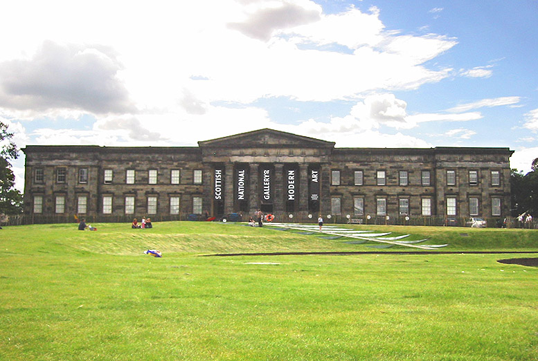 Scottish National Gallery of Modern Art in Edinburgh Taken by me in August 2002.